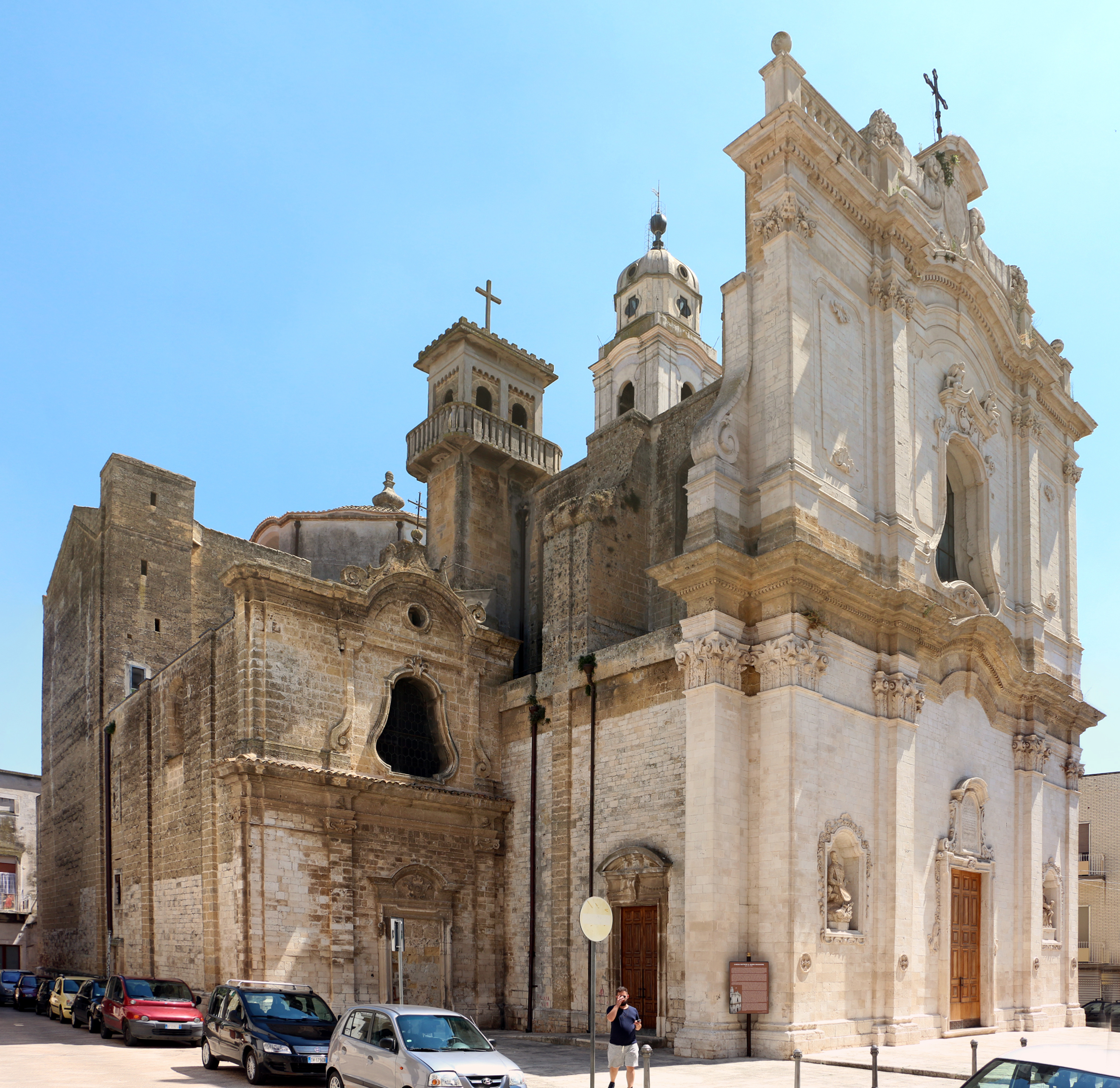 Churches in Gioia del Colle